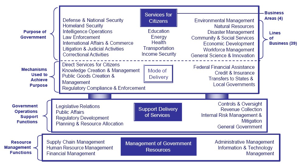 BUSINESS REFERENCE MODEL (BRM) The BRM provides a means to describe the business operations of the Federal Government, independent of the agencies that perform them. The model is the primary “layer” of the FEA, and the foundation for the analysis of service components, technology, data, and performance. In the model of the BRM above, four Business Areas separate Government operations into highlevel categories relating to the purpose of Government (Services for Citizens), the mechanisms the Government uses to achieve its purpose (Mode of Delivery), the support functions necessary to conduct Government operations (Support Delivery of Services), and the resource management functions that support all areas of the Government’s business (Management of Government Resources). The model’s four Business Areas are decomposed into 39 Lines of Business. Each business line includes a collection of Sub-functions that represent the lowest level of granularity in the BRM. For example, the Environmental Management Line of Business encompasses three Subfunctions: Environmental Monitoring and Forecasting; Environmental Remediation; and Pollution Prevention and Control.